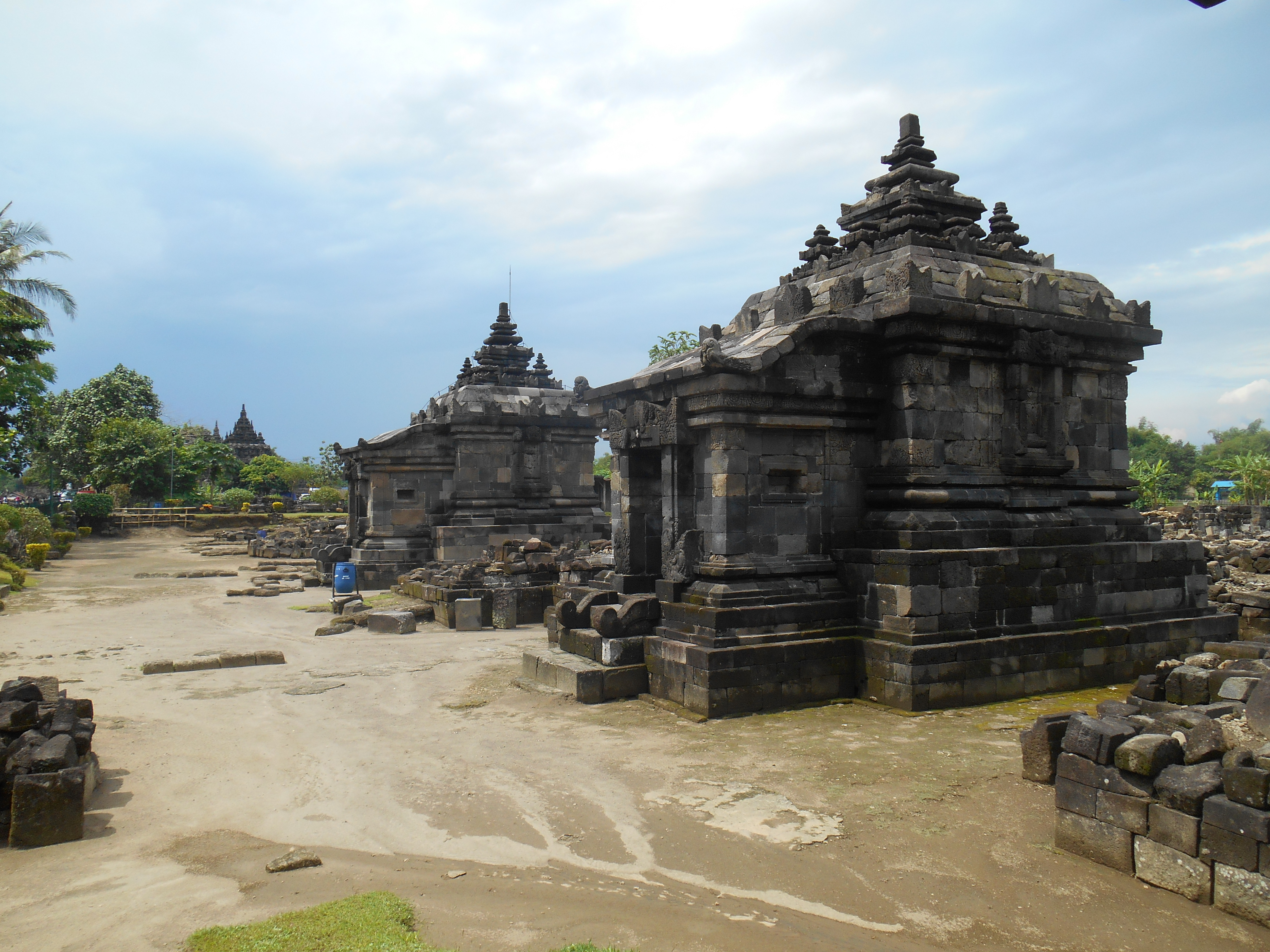 Plaosan Kidul Temple is a Hindu-style temple in Klaten, Central Java